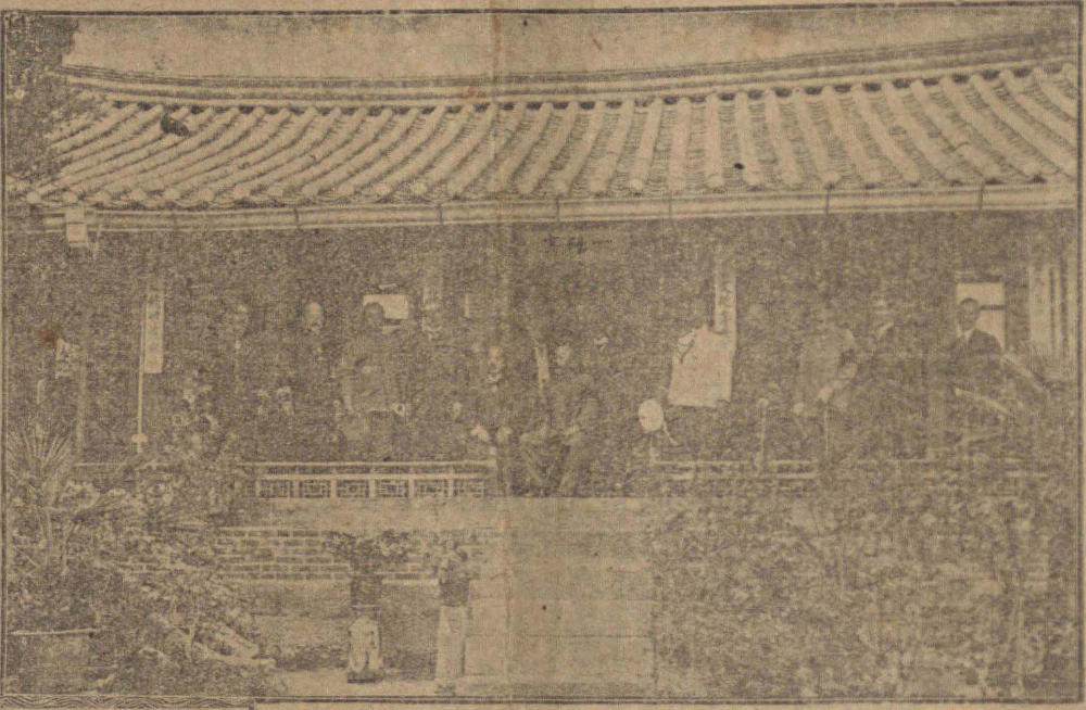 Iryangjeong in 1913.